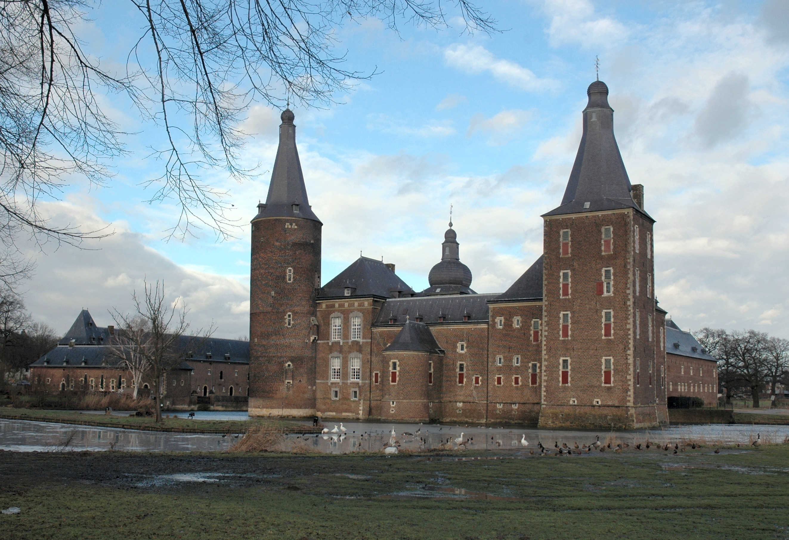 Hoensbroek Castle - southwestern aspect